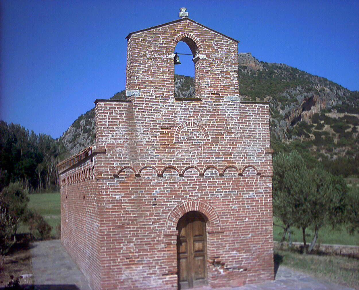 San Nicola di Quirra church - Villaputzu, province of Cagliari, Italy